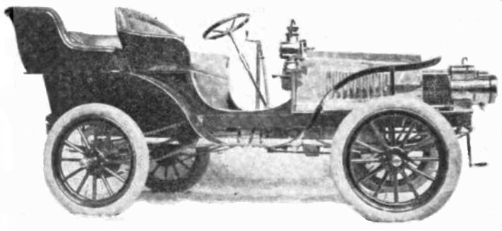 Image is from an article in the Cycle and Automobile Trade Journal and comes from the Google Books archive. It is of the 1903 Spaulding Touring Car made by the Spaulding Automobile and Motor Company of Buffalo, New York. The car is a two-cylinder model, 25 HP, with three forward and one reverse gear. Title Automobile trade journal, Volume 7 Publisher Chilton Company, 1903 Original from the University of Michigan Digitized Apr 27, 2006